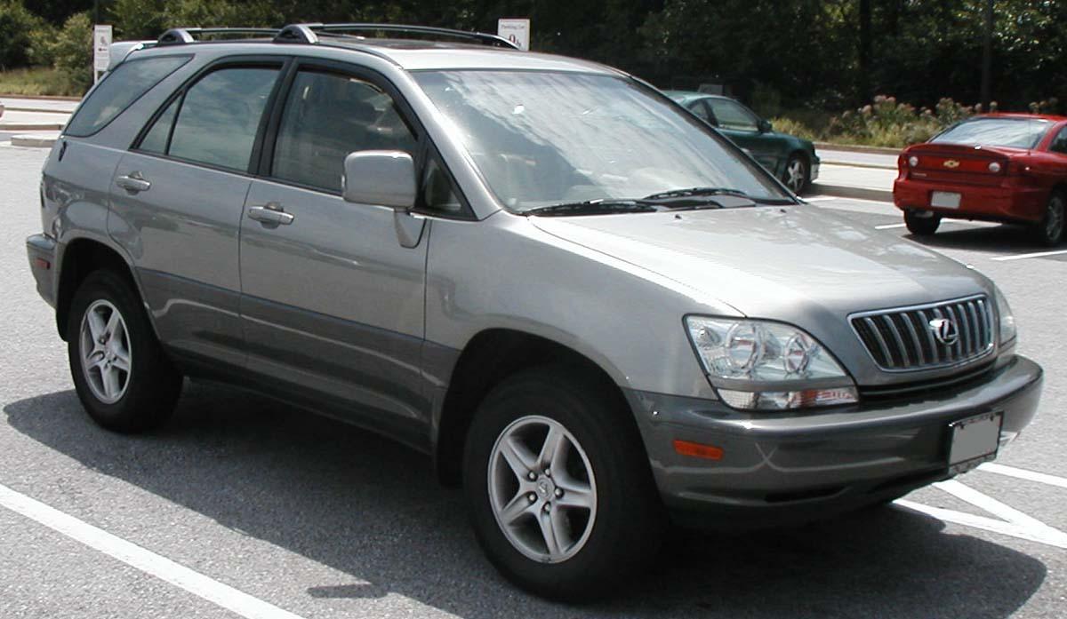 1997-2003 Lexus RX300 photographed in USA.